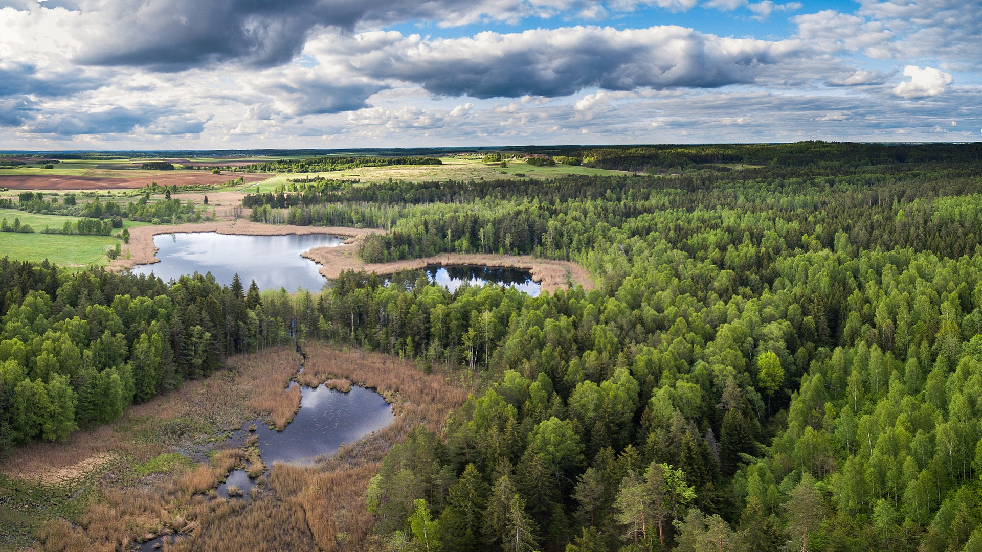 Žadvainiai Lake, Šiauliai district, Lithuania